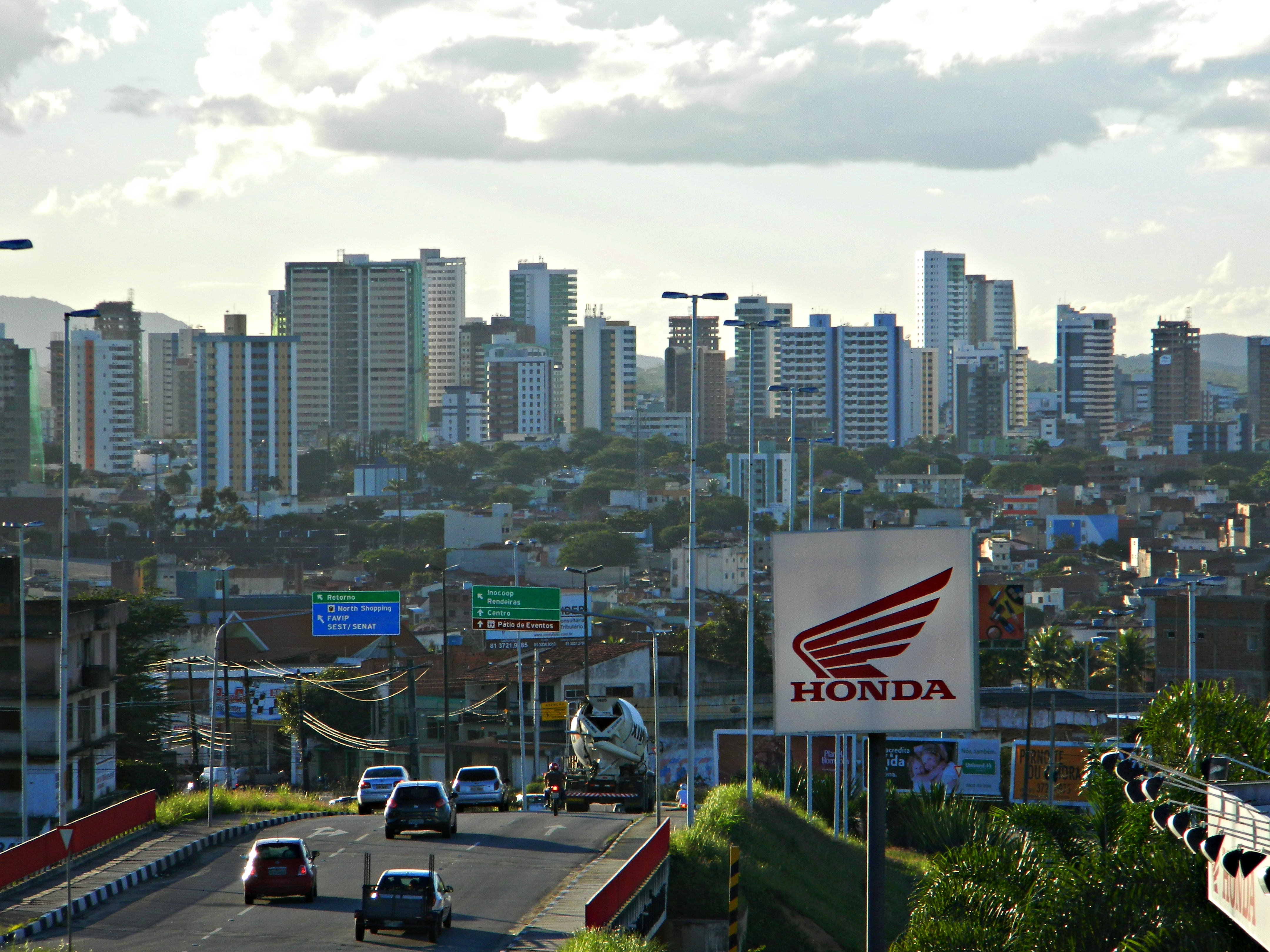 Caruaru, Pernambuco, Brasil.